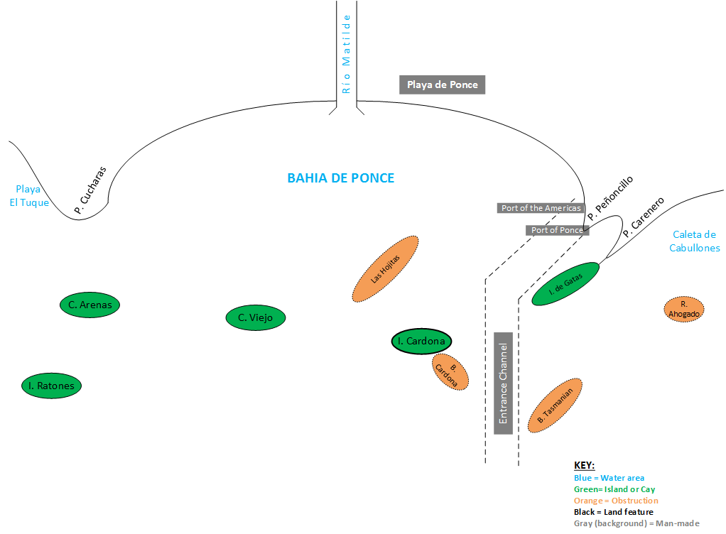 Croquis de la Bahía de Ponce, Puerto Rico [not to scale] (6B-JPG)